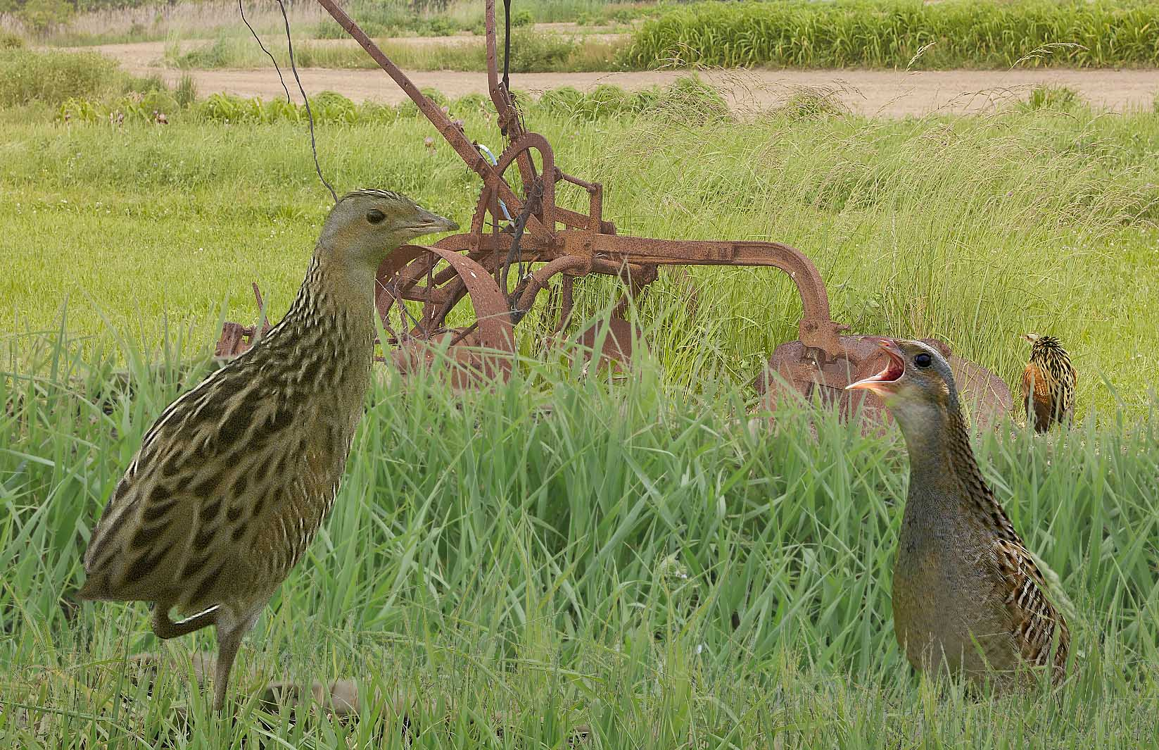 Corncrake from the Crossley ID Guide Britain and Ireland